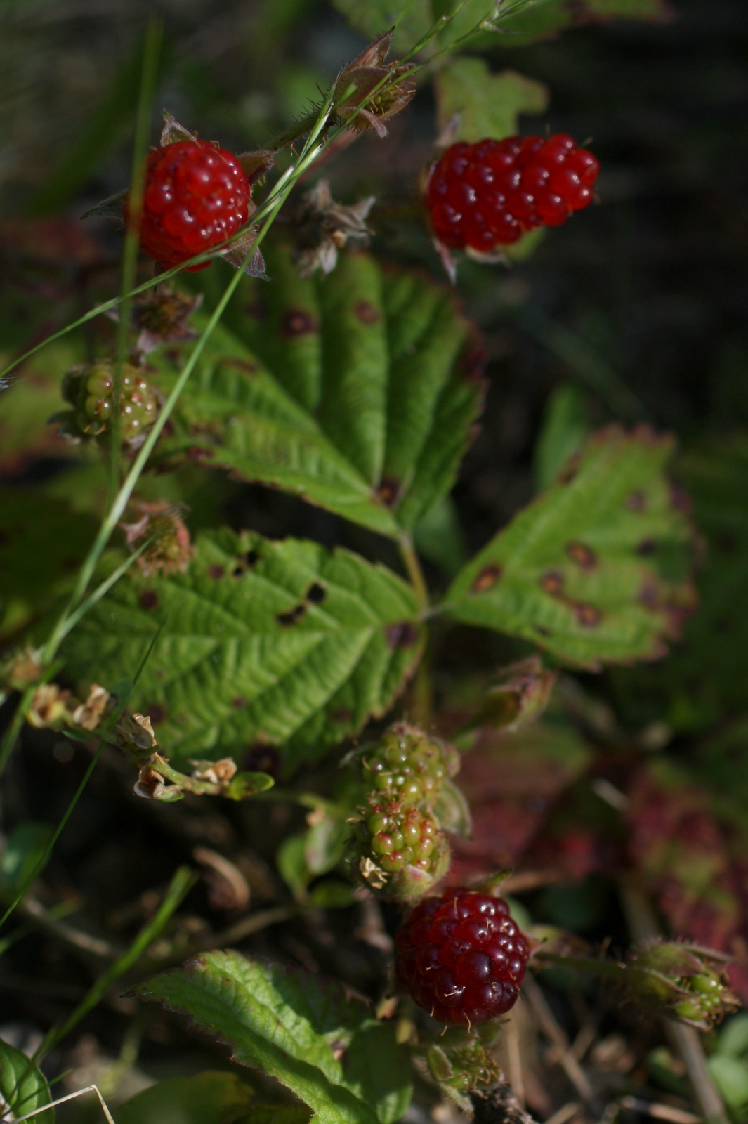 Rubus ursinus — Pacific trailing blackberry. Not a pretty photo, but newsworthy: a LOT of Pacific trailing blackberry (Rubus ursinus - Rosaceae family) on this Alger Alp South Route Trail hike (Washington state). Some were even slightly ripe and worth tussling with the thorns of the Himalayan blackberry above the low trailing canes.